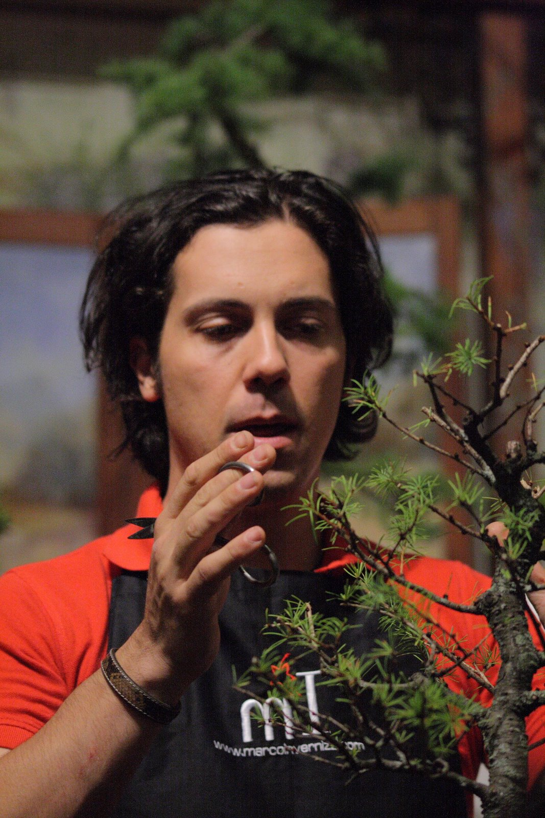 Italian bonsai artist Marco Invernizzi demonstrates with a Japanese Larch (Larix kaempferi), at a meeting of the Bonsai Society of Greater Hartford in Connecticut.